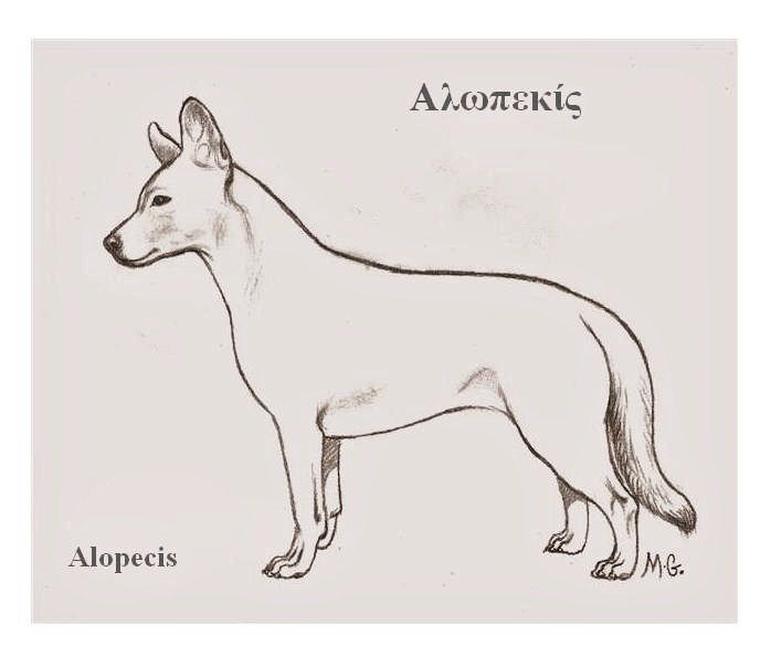 drawing of typical Alopekis by Maria Gkinala